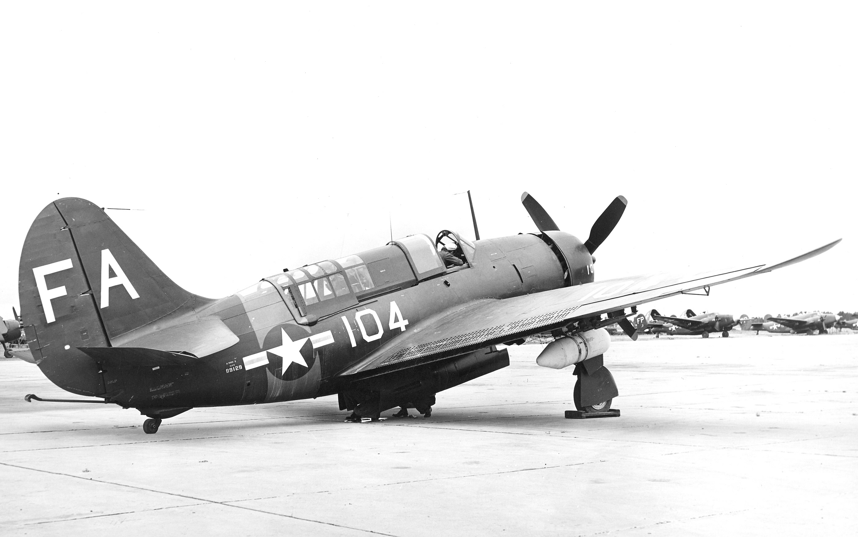 At Oakland on June 10, 1948.